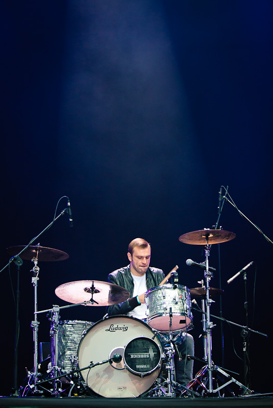 Piotr Waglewski of Kim Nowak at Orange Warsaw Festival